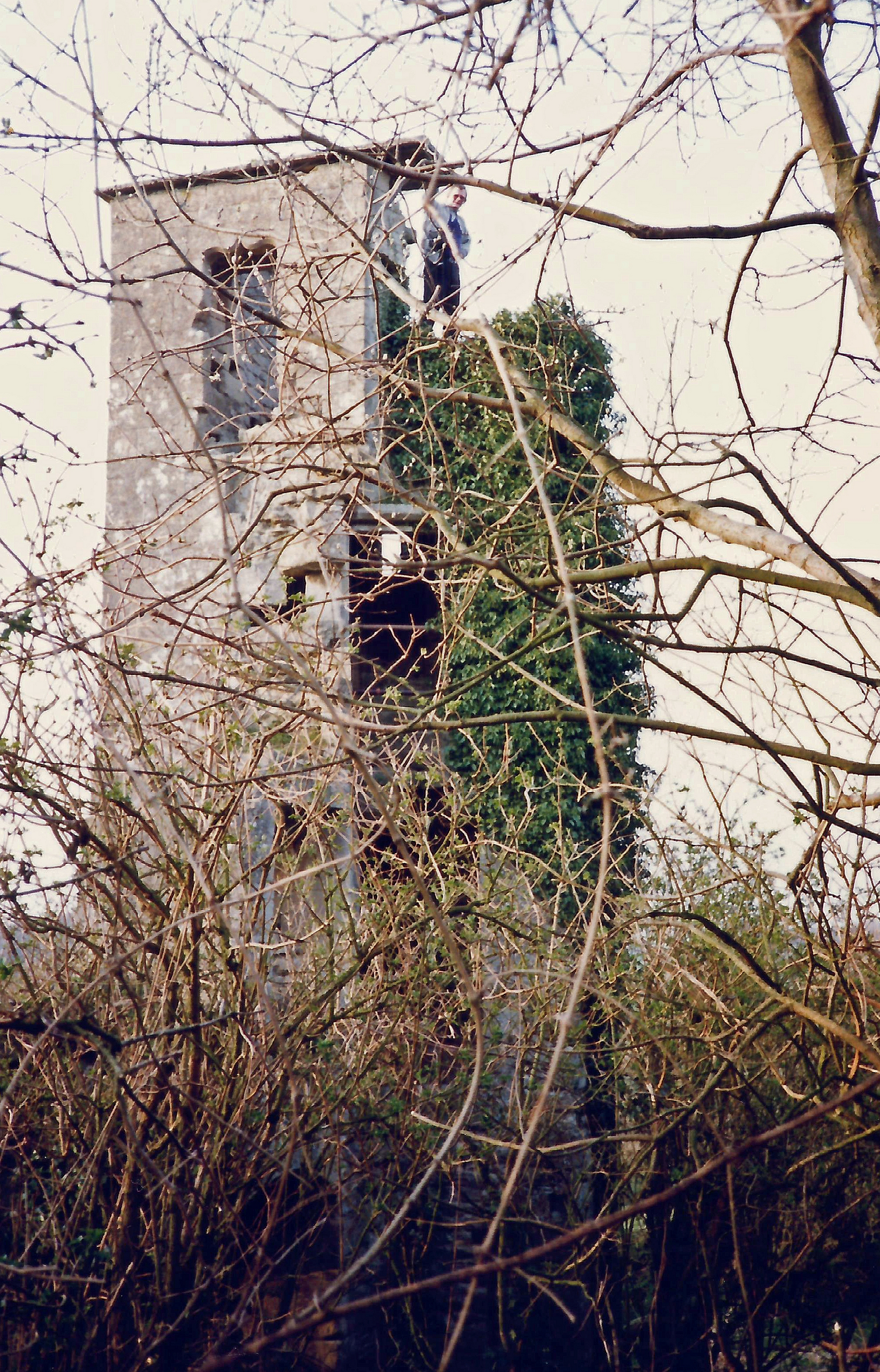 Tower of Bradenstoke Abbey, Wiltshire